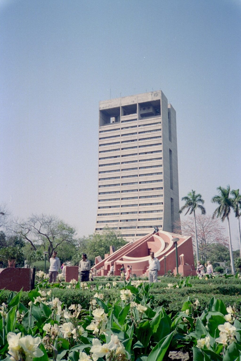 NDMC Building, also known as the Palika Kendra, Delhi, India.